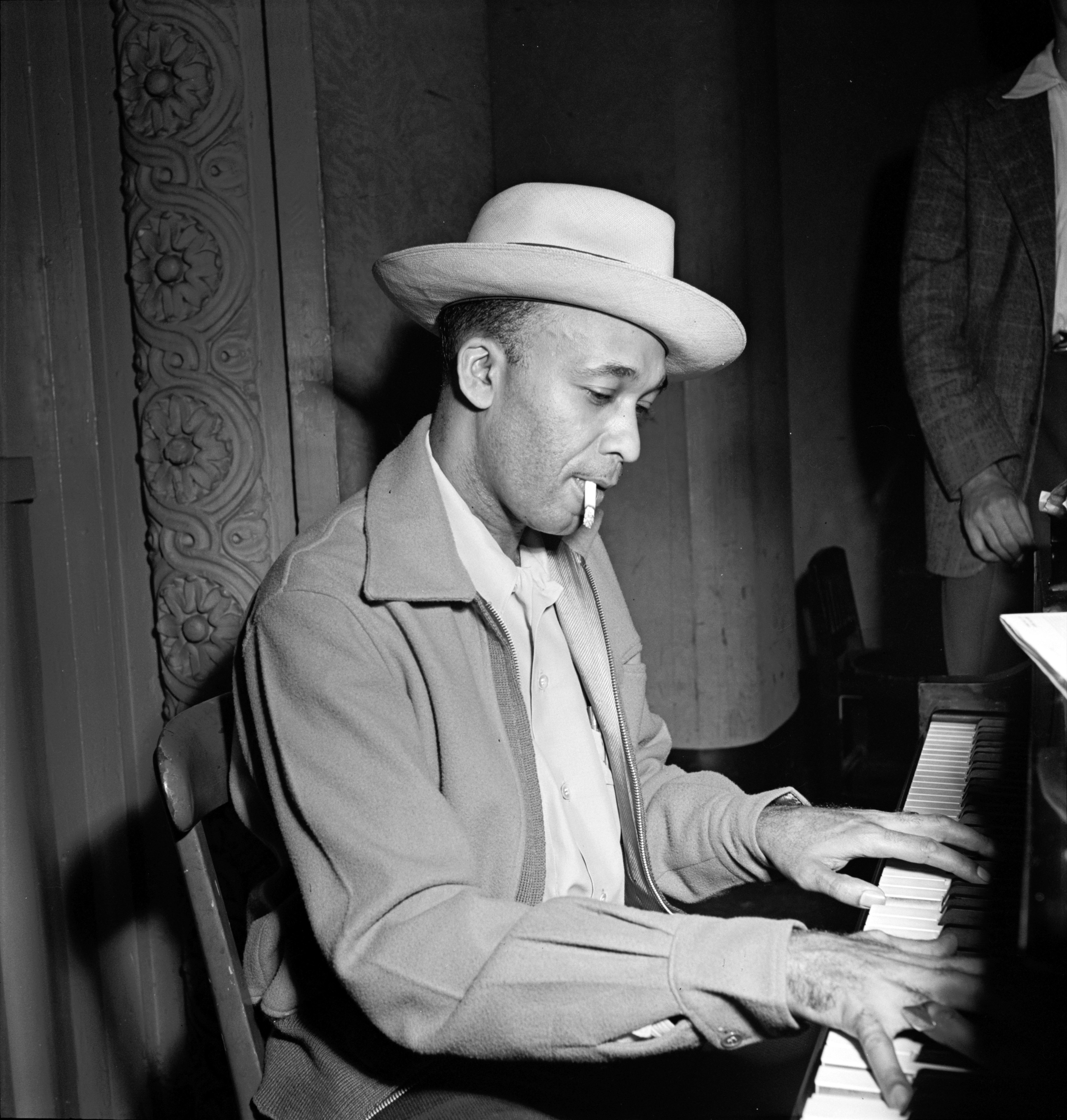 Hermann Chittison, October 1946. Photography by William P. Gottlieb "Mildred Bailey, among others, considers Chittison the finest accompanist extant. Right now, he's not working with any vocalists. Mostly, he's playing with his trio on the "Endorsed By Dorsey" show over Mutual. (That's the program directed by Si[y] Oliver.")